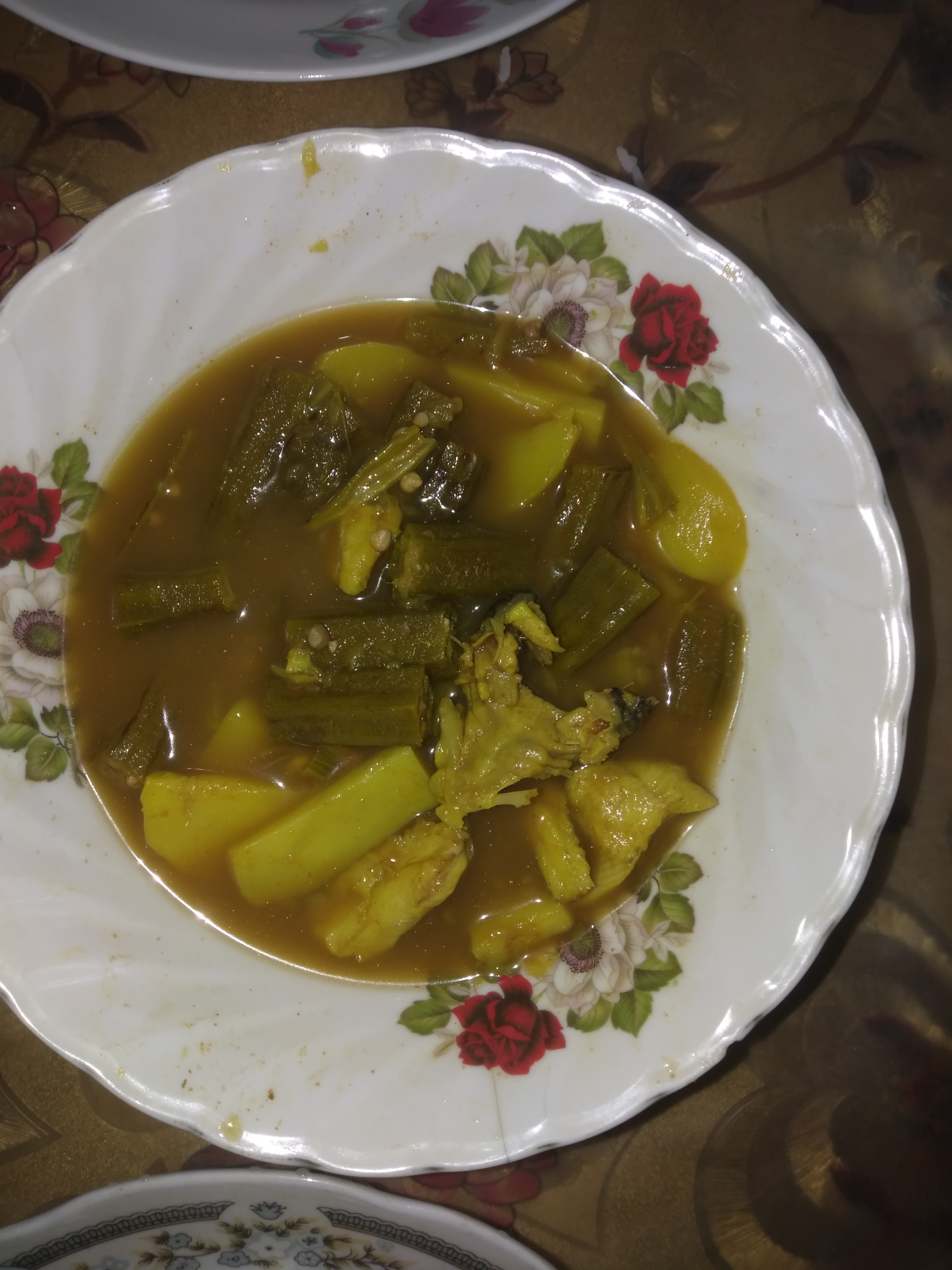 Dereshor Hutki Shira